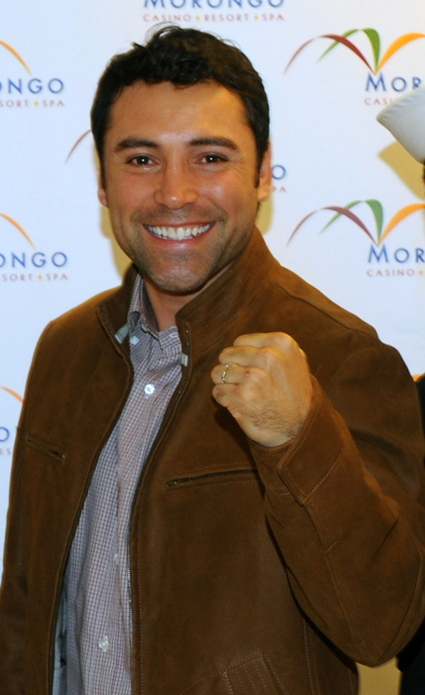 CABAZON, Calif. (Feb. 22, 2008) The boxing Promoter Oscar De La Hoya at a event held at the Morongo Casino. U.S. Navy photo (Released)